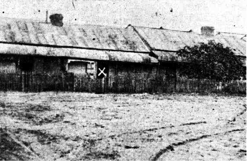 Image of the scene of a crime that occurred in 1930, West Perth, Australia